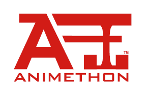 Animethon Offical Logo